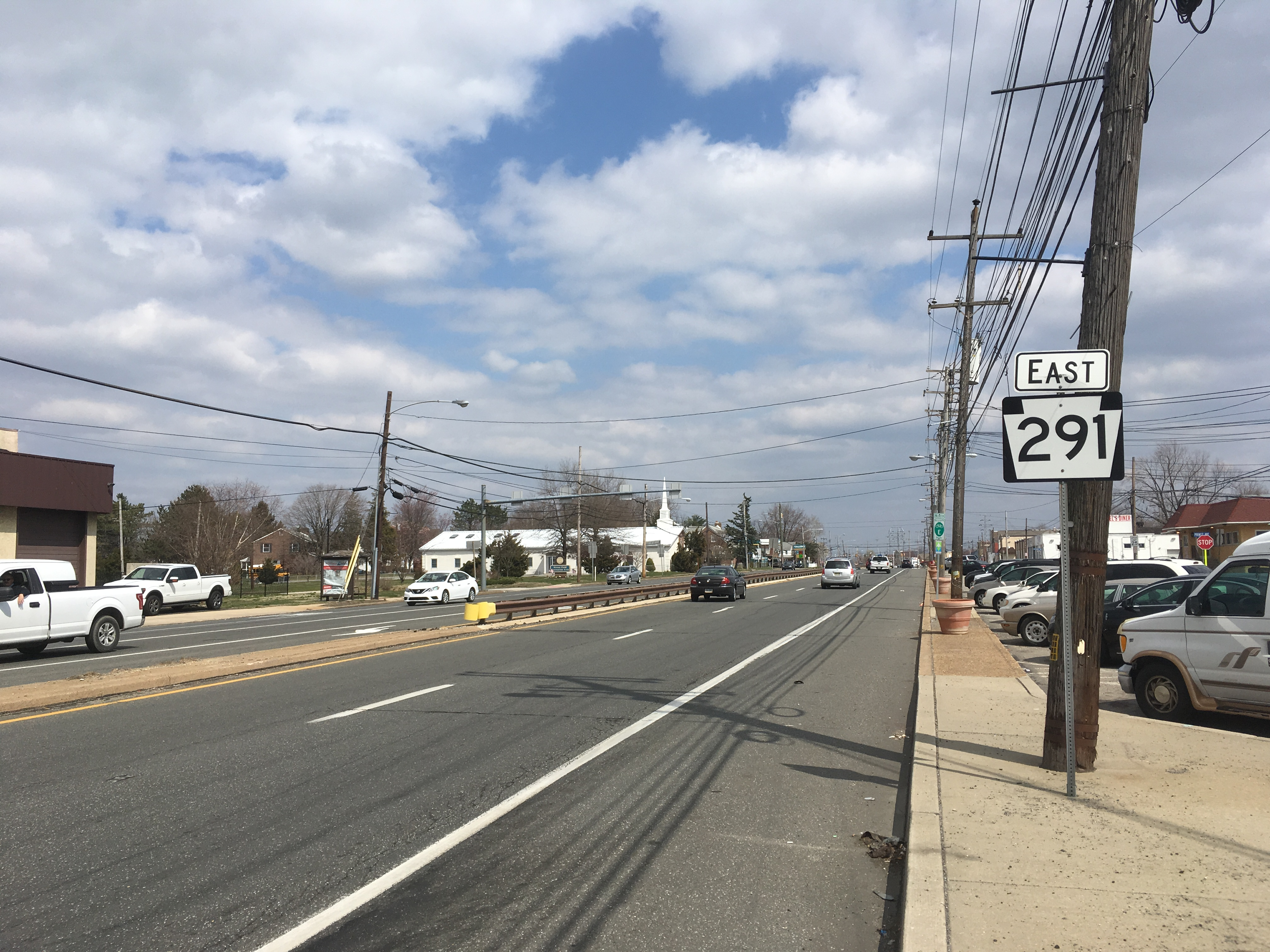 Eastbound Pennsylvania Route 291 (Industrial Highway) past the intersection with the southern terminus of Pennsylvania Route 420 (Wanamaker Avenue) in Essington, Pennsylvania